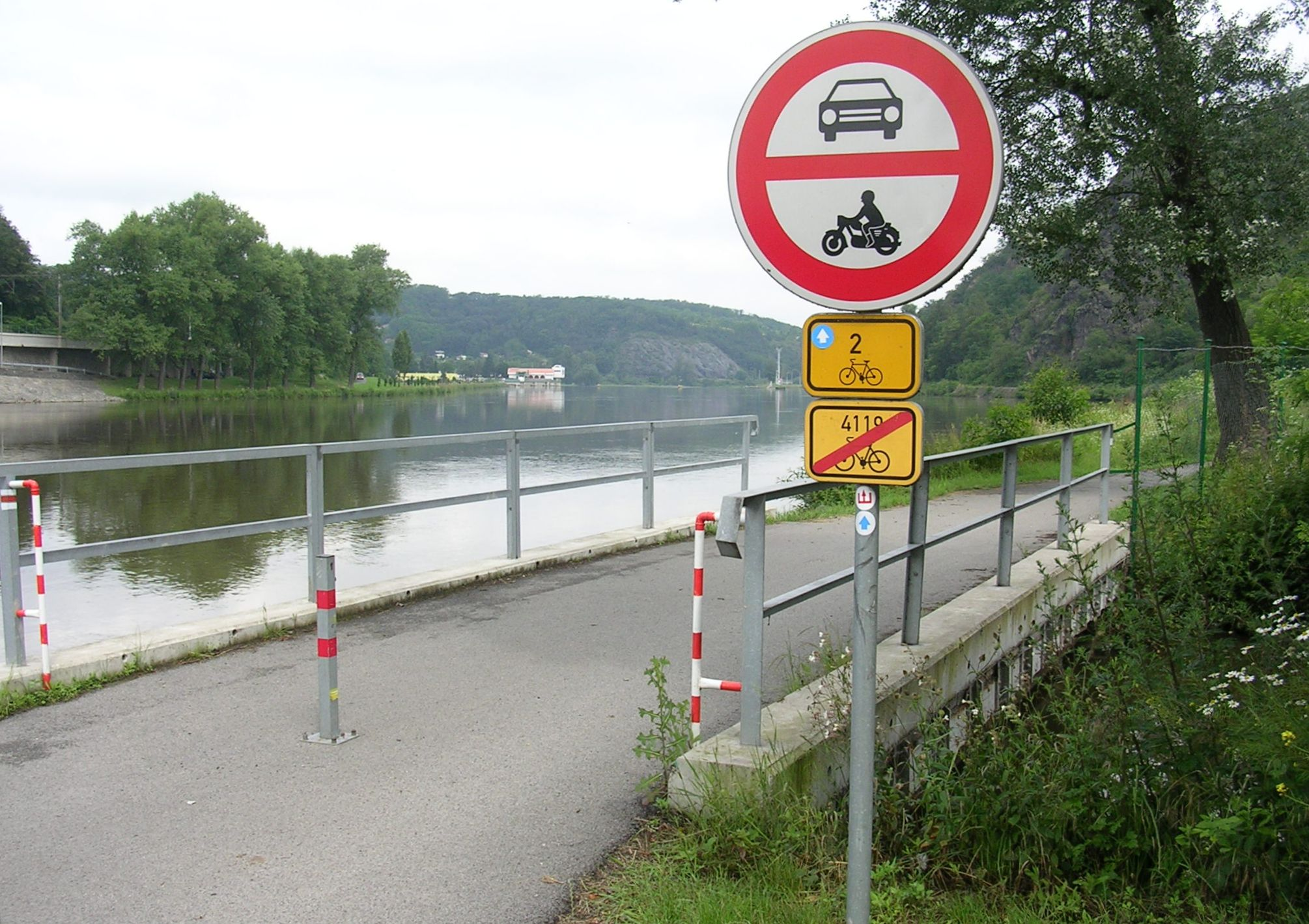 Máslovice-Dol, Prague-East District, Central Bohemian Region, the Czech Republic. A bridge over the outfall of Máslovice Creek.